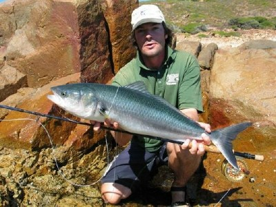 Permission from webpage ( to use on Australian Salmon (Arripis truttacea) page.